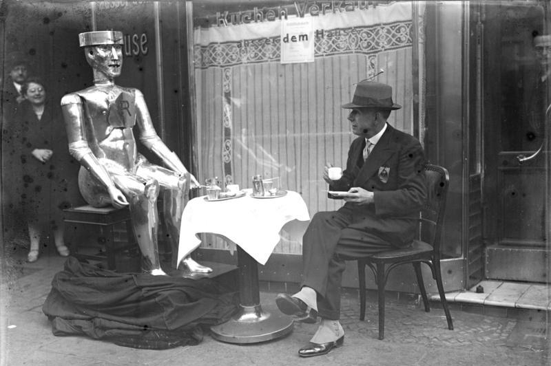 George the humanoid robot from the 1930s was constructed by motor engineer Alan Herbert Reffell and Captain W. H. Richards. Captain and journalist William H. Richards was secretary of the Exhibition of the Society of Model Engineers. The picture shows Captain W. H. Richards.